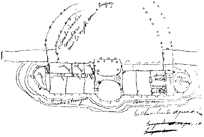 Sketch drawn by King Frederick II of Prussia for the design of the Palace of Sanssouci—Schloss Sanssouci, that was built in Potsdam. The sketch was drawn by 'Frederick the Great' in 1745.